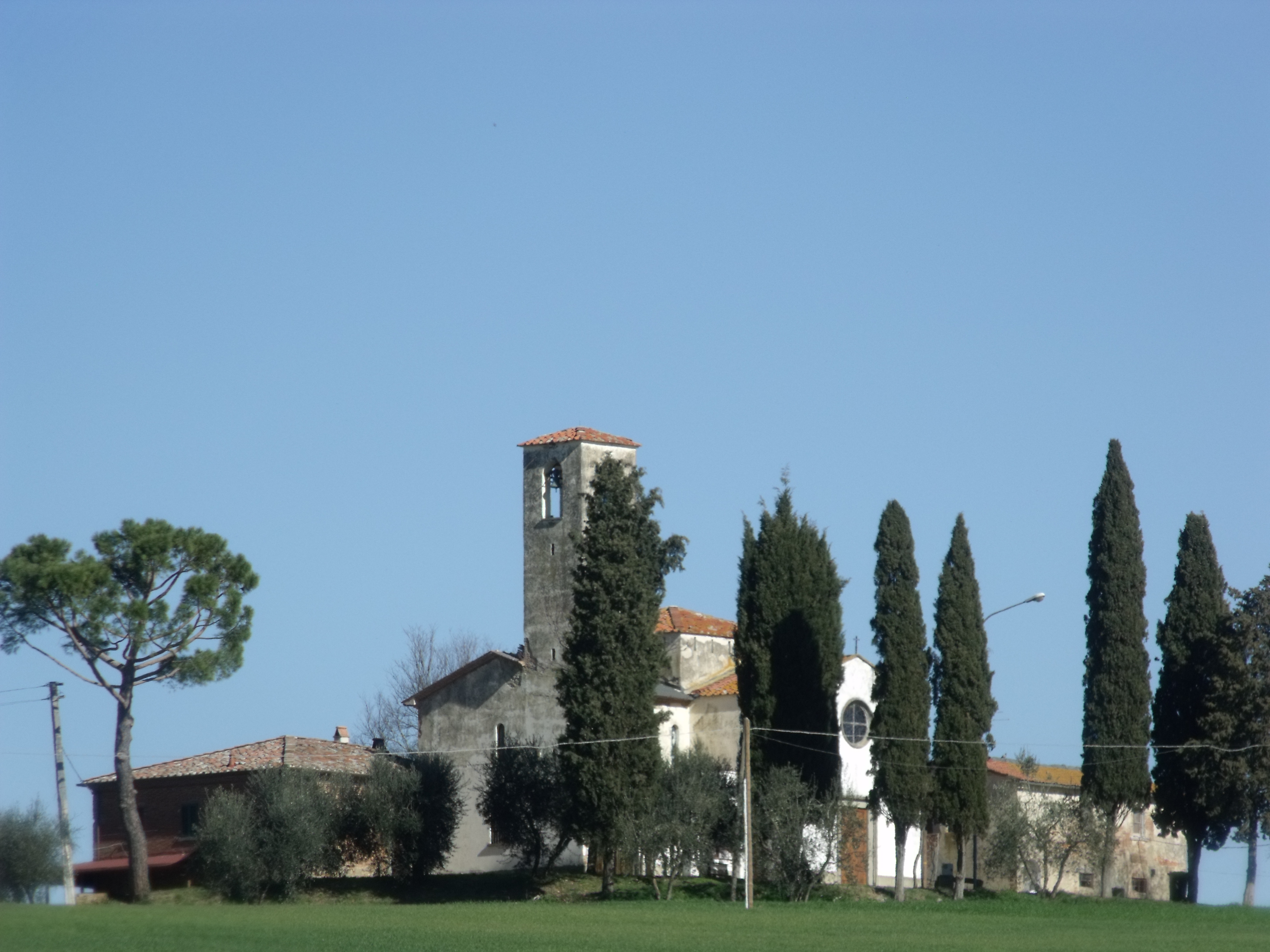 Church of San Bartolomeo in Badicorte, hamlet of Marciano della Chiana, Valdichiana, Province of Arezzo, Tuscany, Italy